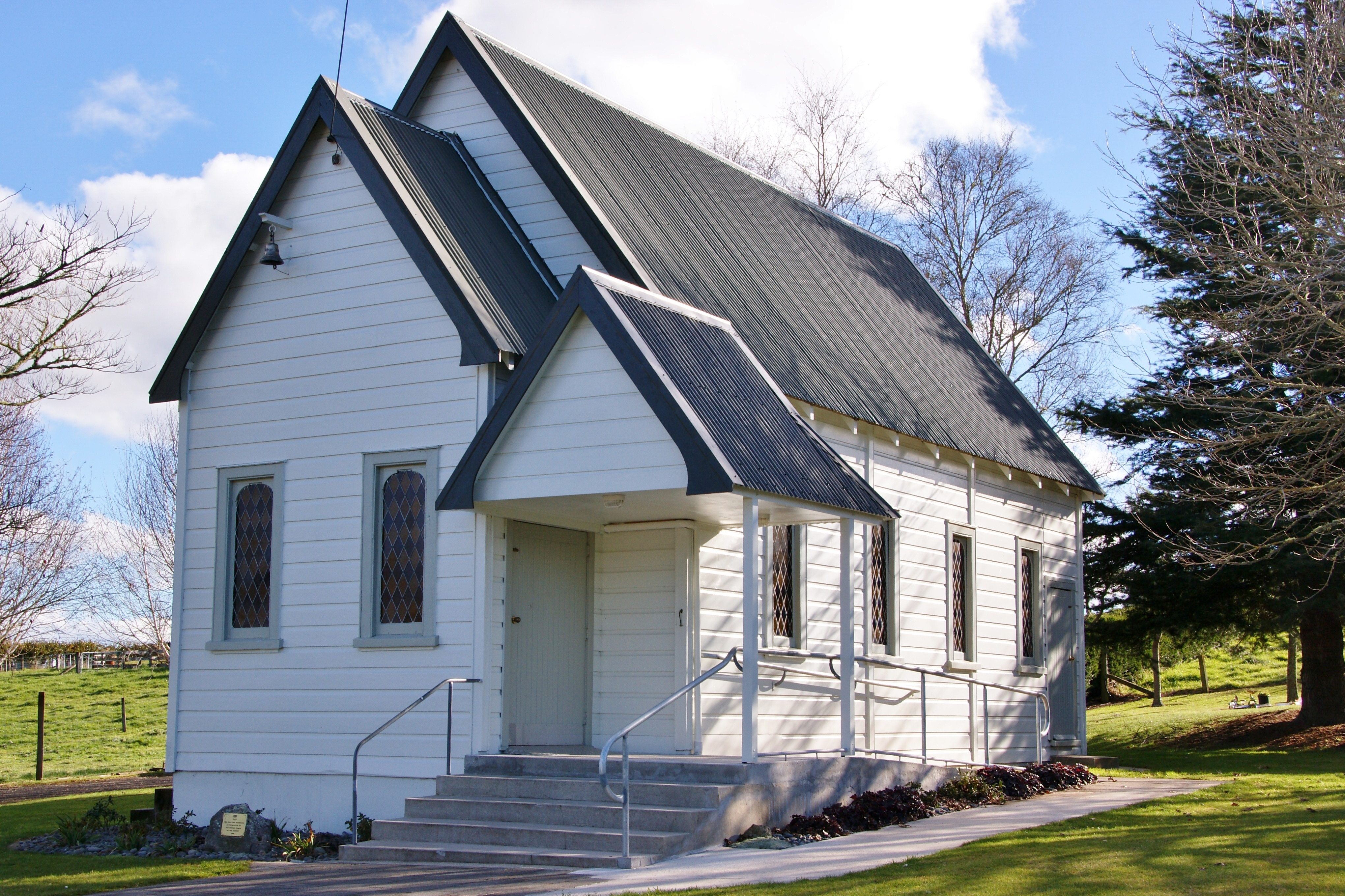 A church in New Zealand.